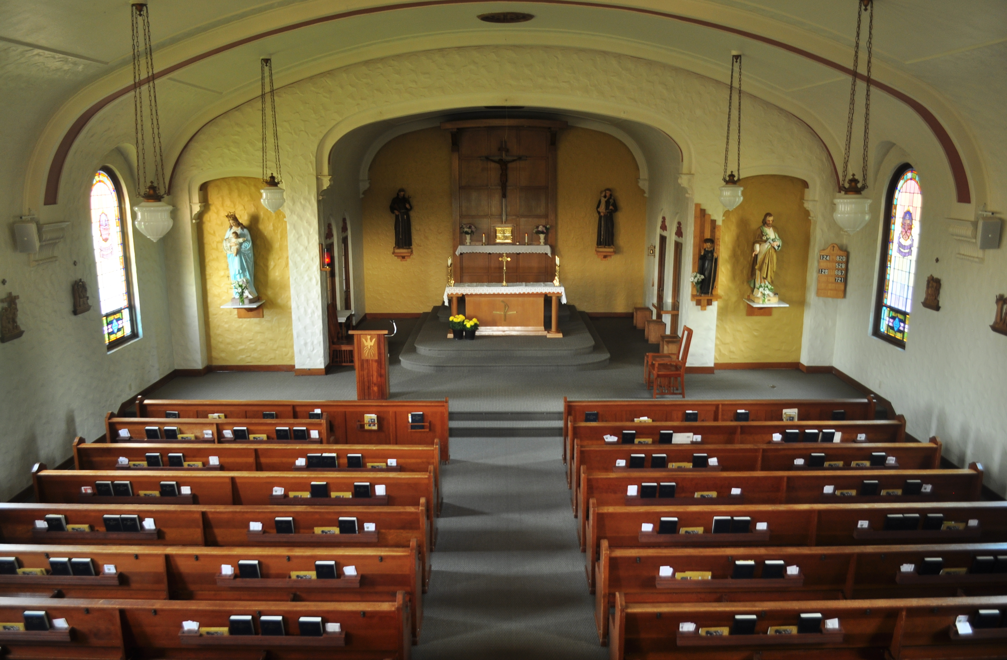 Interior, Saint Francis Xavier Mission Church in Lewis County, Washington, U.S., three miles north of Toledo, Washington, U.S. View from the choir loft.